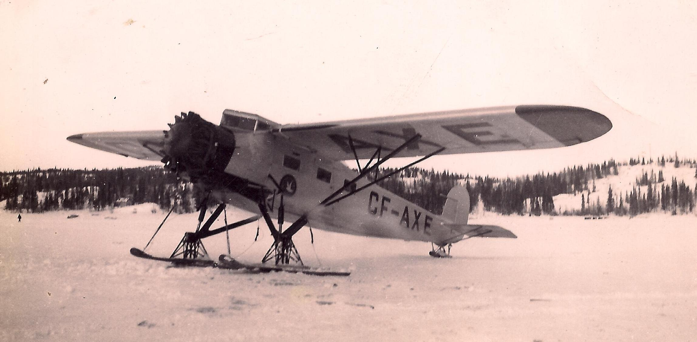 Goldfields, Saskatchewan, February 1938. From the Charles Eymundson fonds, PR2012.0927/179.